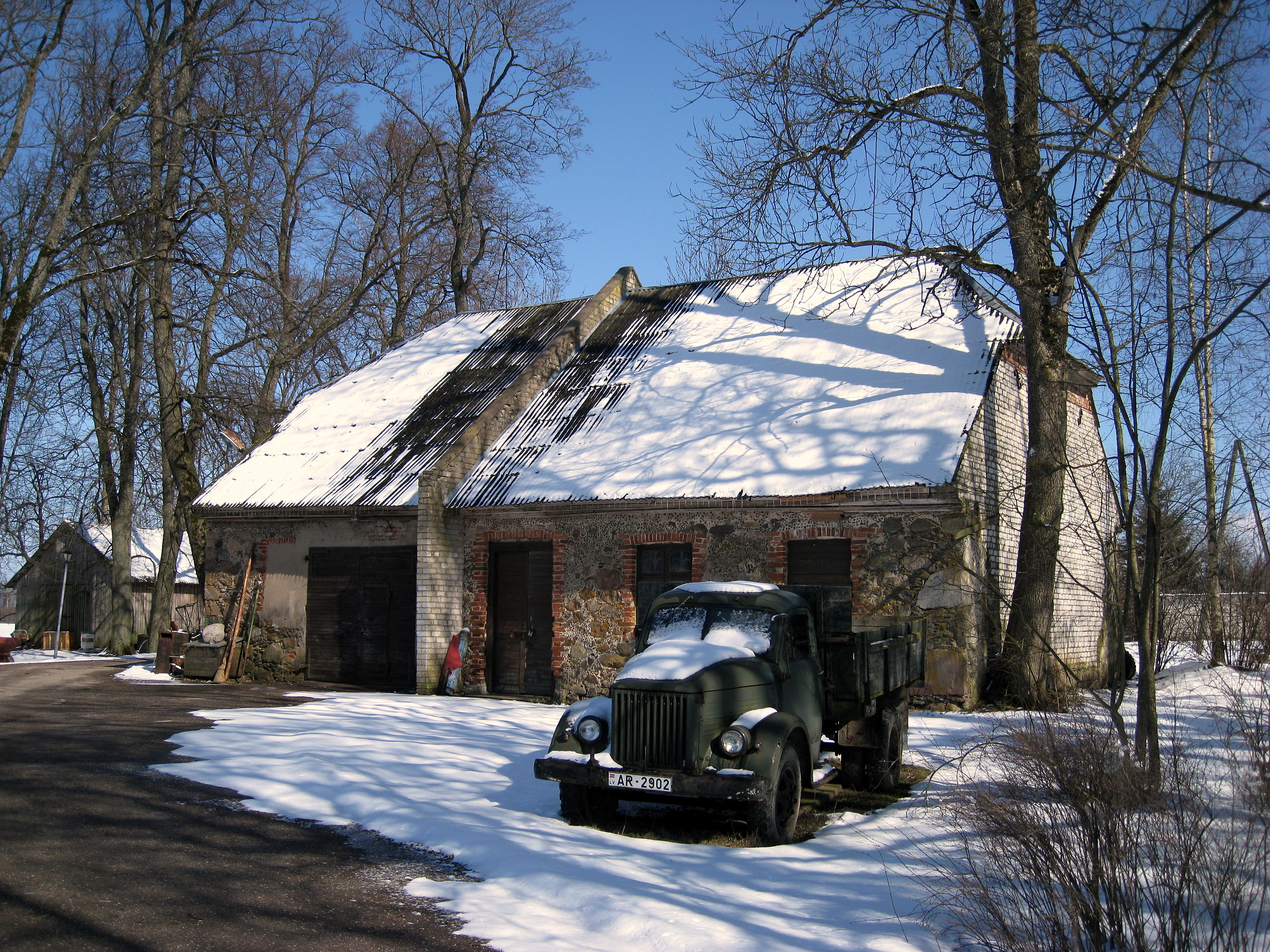 Barn and old truck in Rokaizi Manor